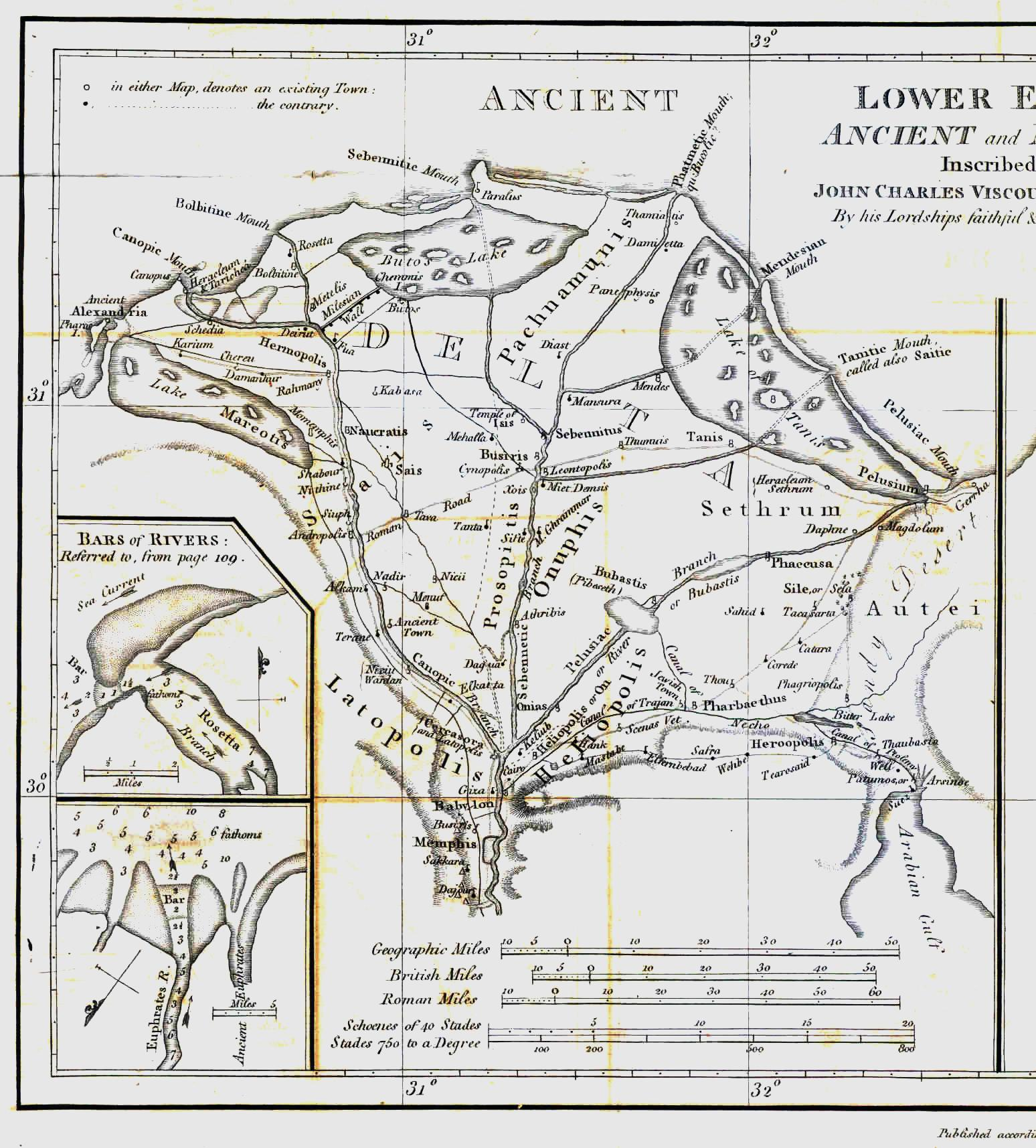 Map of ancient Egypt created by James Rennell as an insert for his book "The geographical system of Herodotus examined and explained" (published 1800 and 1830). This map shows Rennell's understanding of the geography of Egypt's Nile delta during the Greek Classical period (510 BC - 323 BC) based on the writings of Herodotus (484 BC - 425 BC).